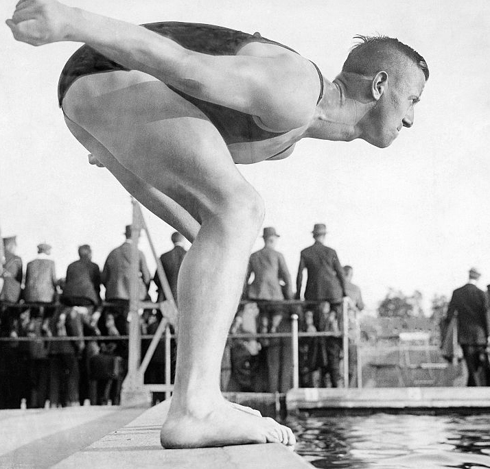 Erich Rademacher in Göteborg